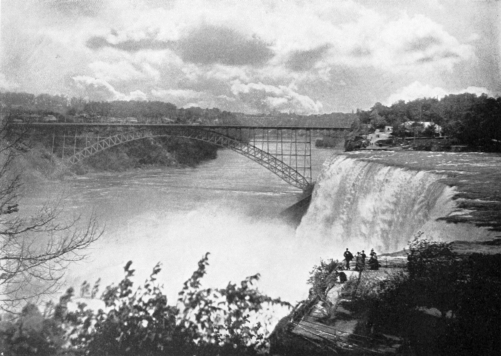 Honeymoon Bridge, Niagara Falls (1900).